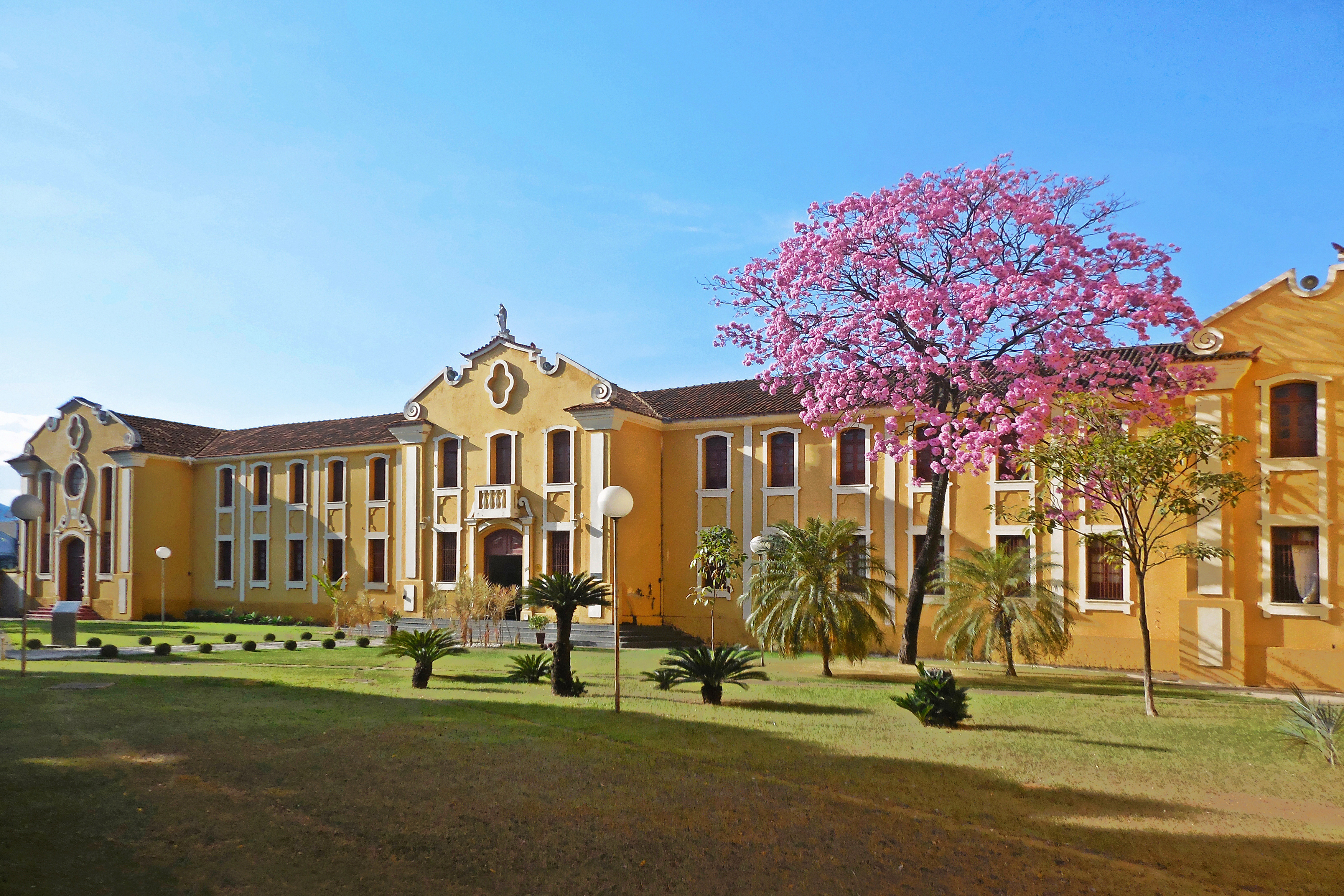 Front of the Colégio Angélica (Angélica college), in Coronel Fabriciano, Minas Gerais, Brazil.